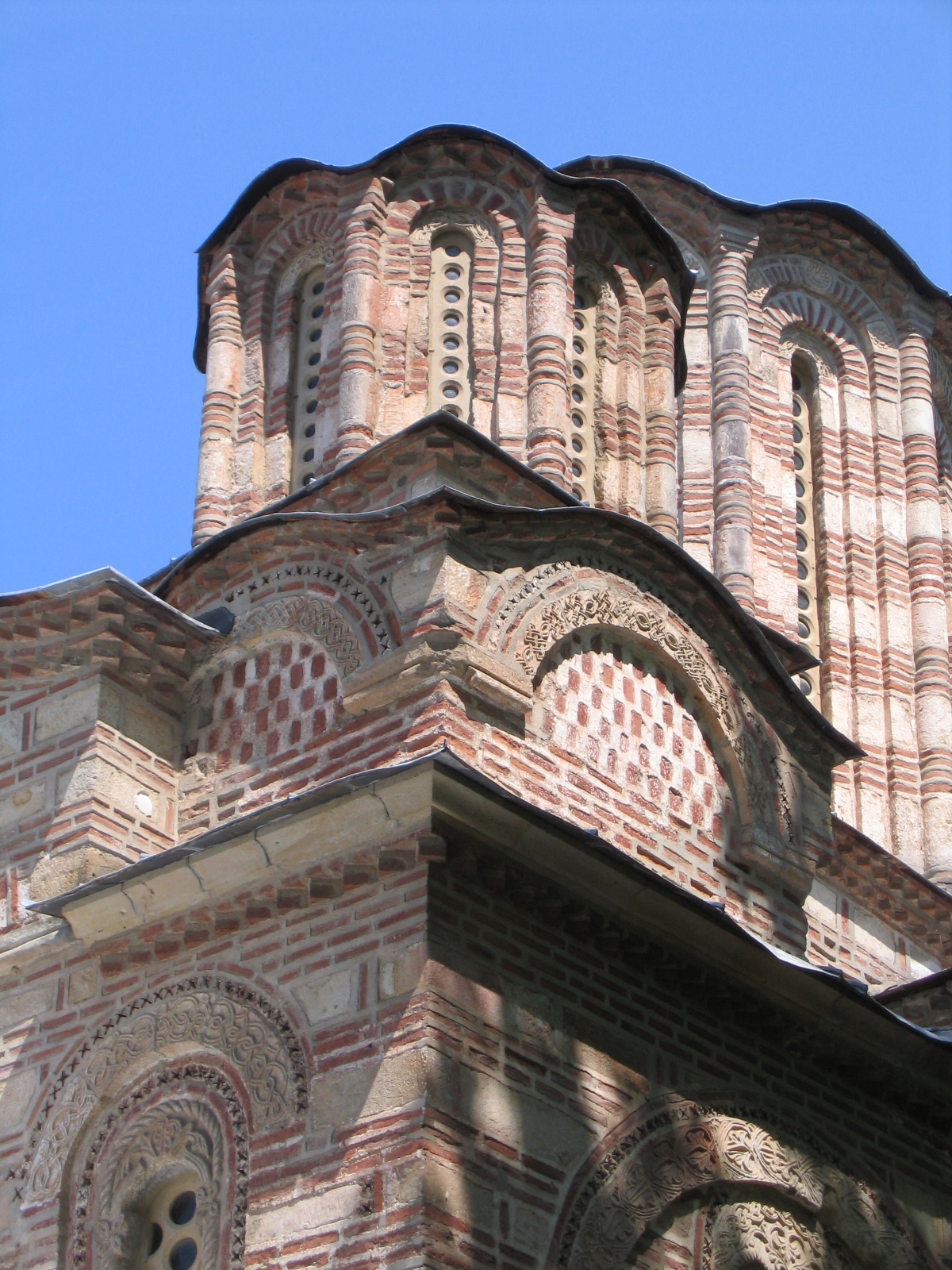 Detail of Serbian Orthodox Church Ravanica